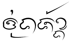 Lanna script – Thung Chang is a district (Amphoe) in the northern part of Nan Province, northern Thailand.